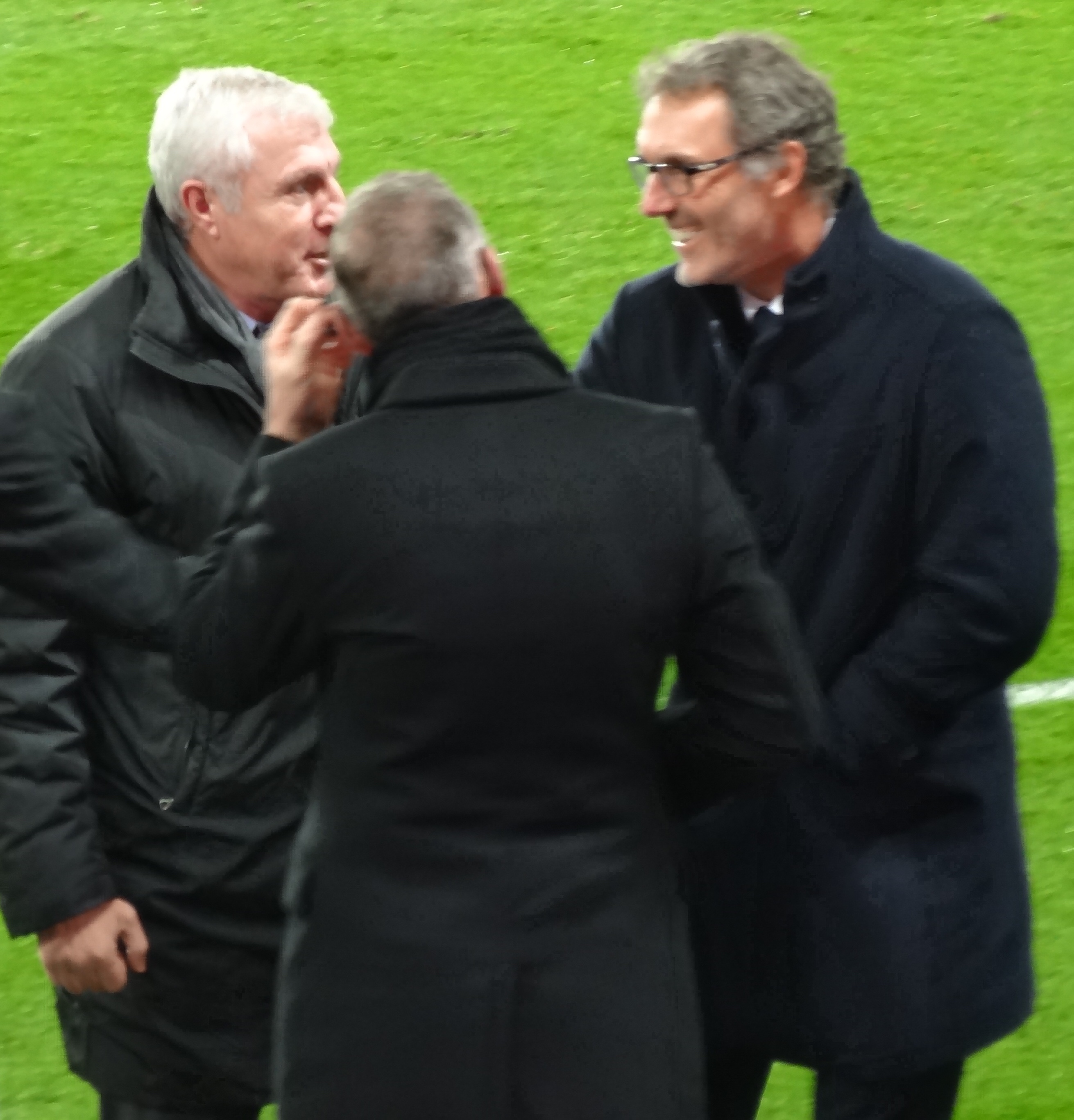 Luis Fernandez & Laurent Blanc